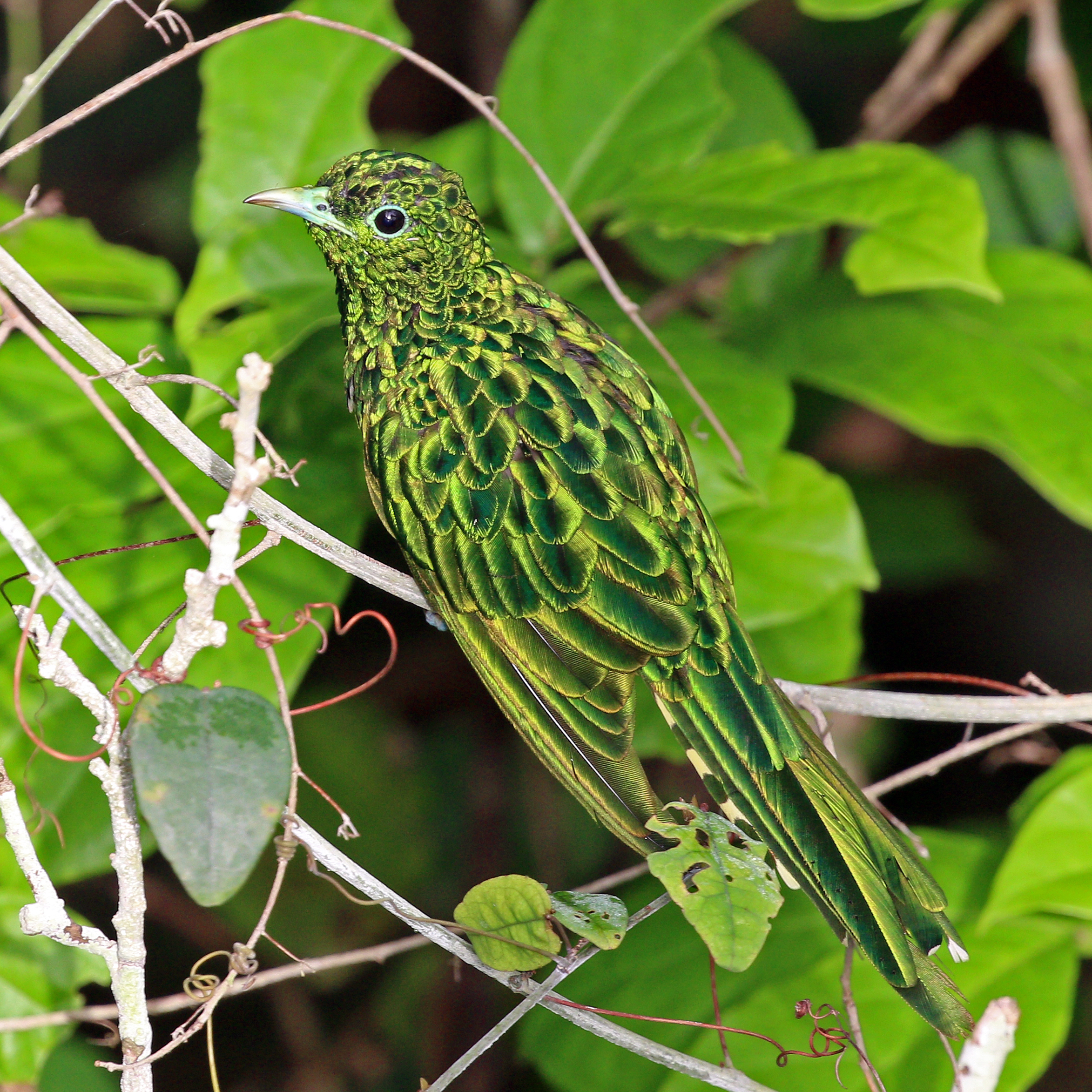 African emerald cuckoo (Chrysococcyx cupreus) male, Kakum National Park, Ghana